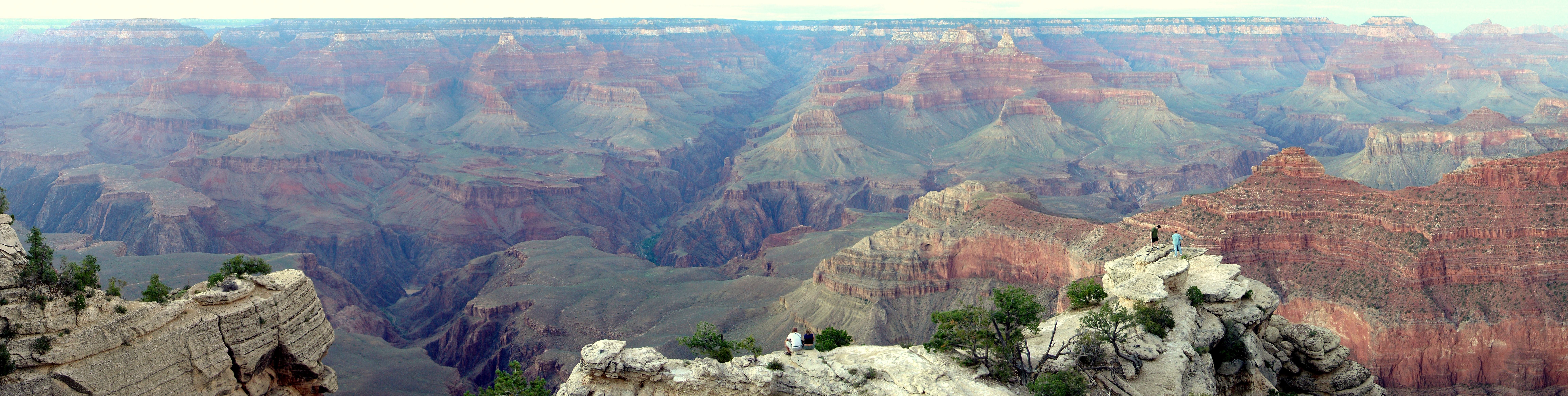 Please, have this description accessible to all by translating it in different languages.